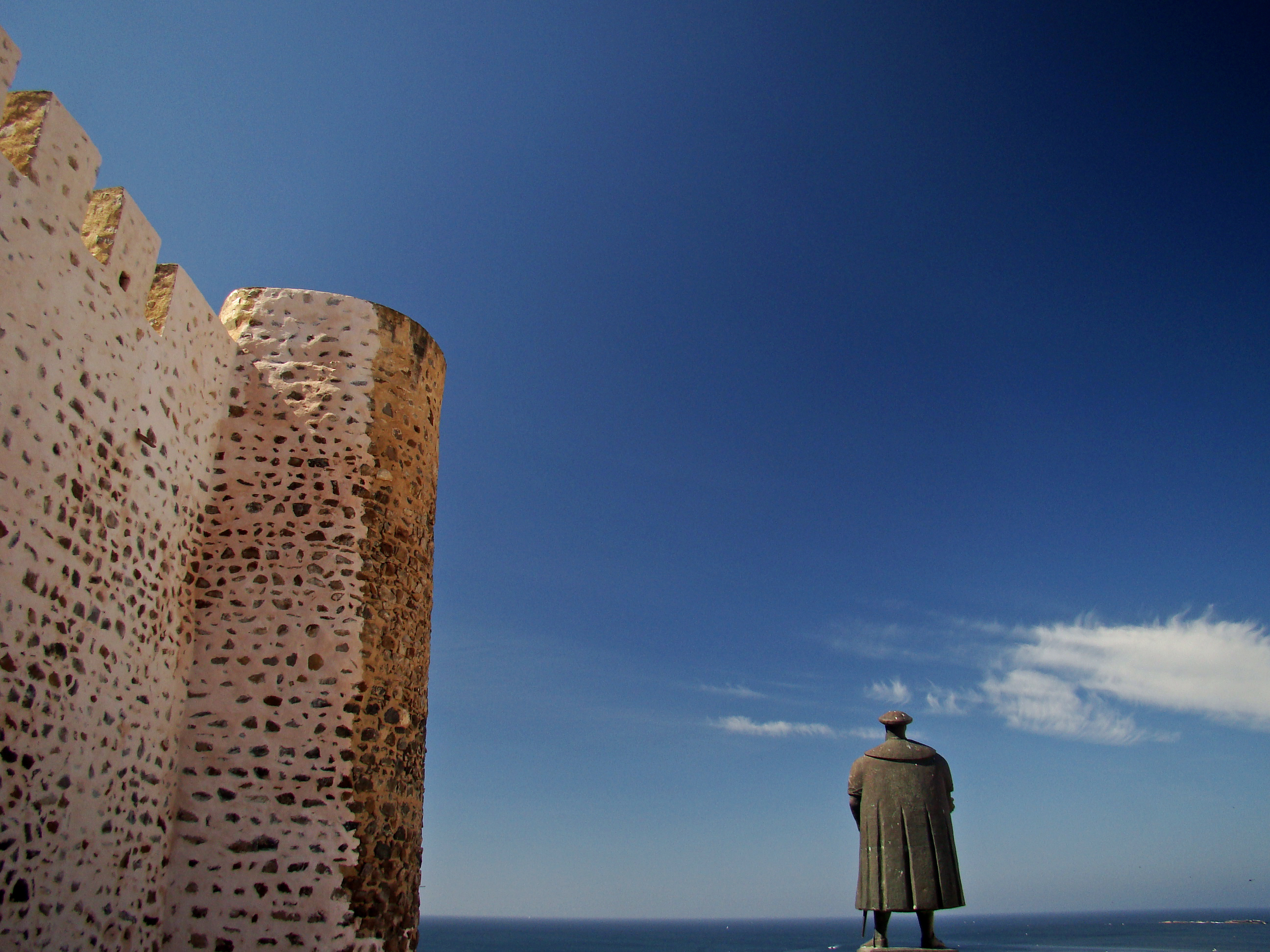 This file was uploaded for Wiki Loves Monuments in Portugal with the unique identifier 74109.